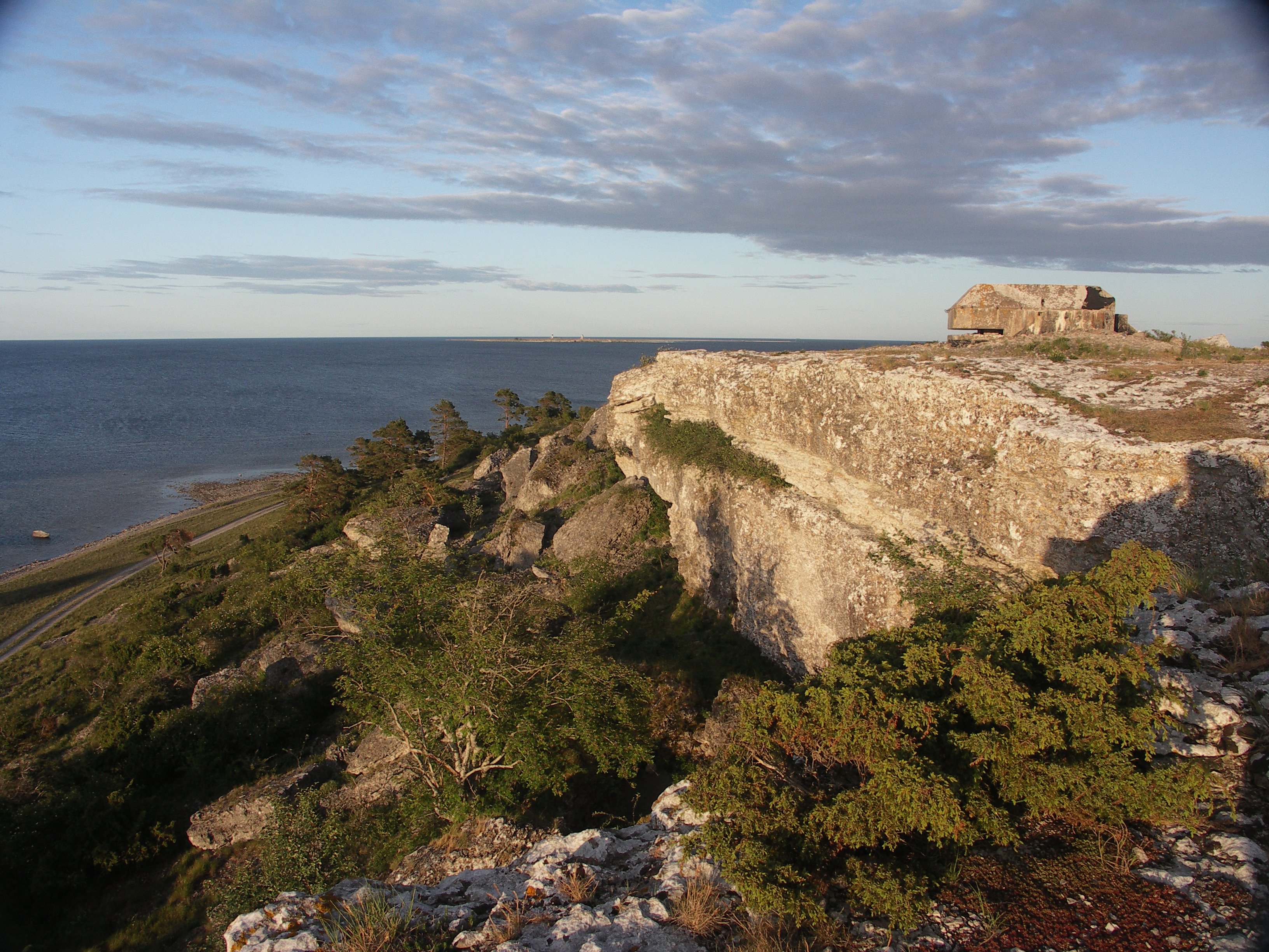 Östergarn 141 is a Grogarnshuvud fornborg at Grogarnsberget, Östergarns socken, Gotland, Sweden. Within fornborg observation bunker 74:43 was built 6 x 5 meters (NNE-SSW) and up to 2 meters high. Entrance to SSW. Molded concrete. There also exists a trench.